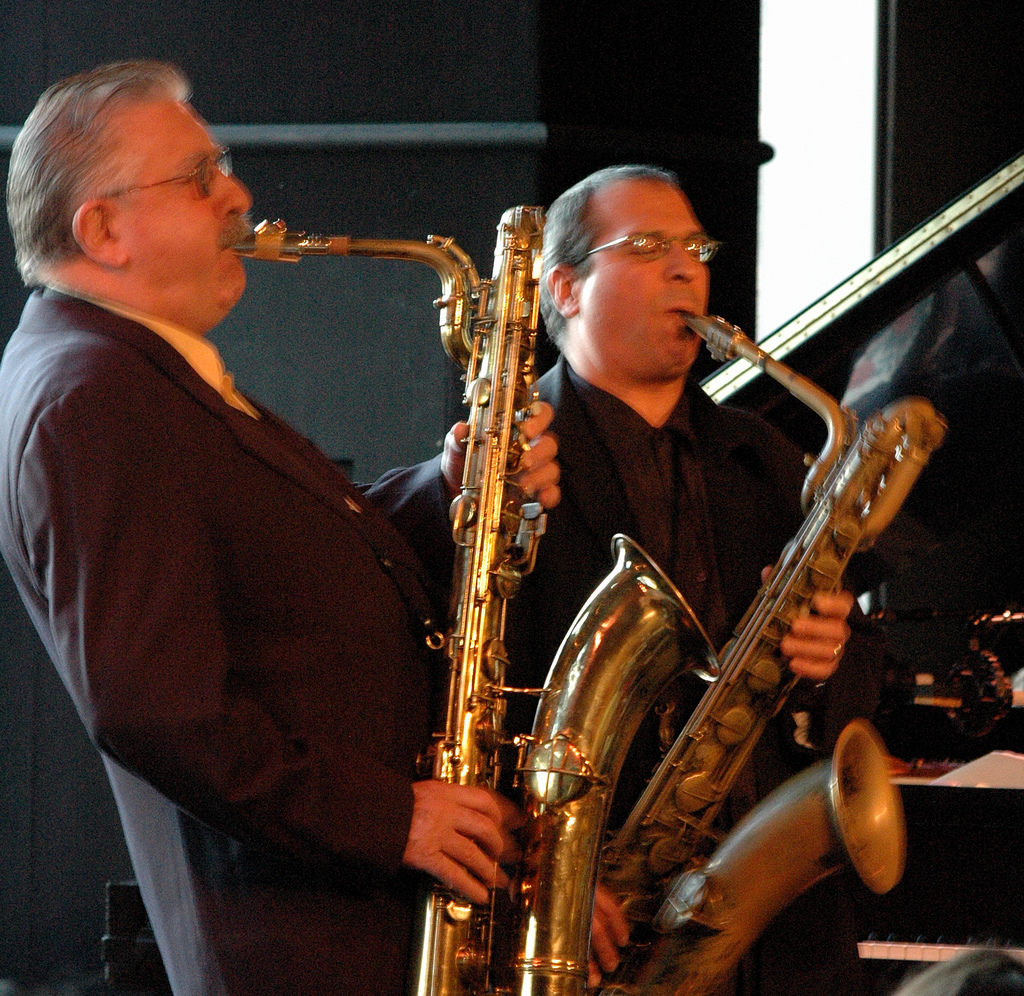 Joe Temperly and Gary Smulyan at a jam session, New York, 11/19/05